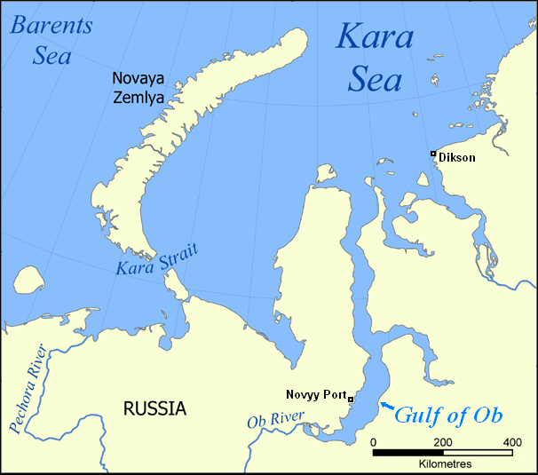 This map shows the area around the Gulf of Ob (Russia).